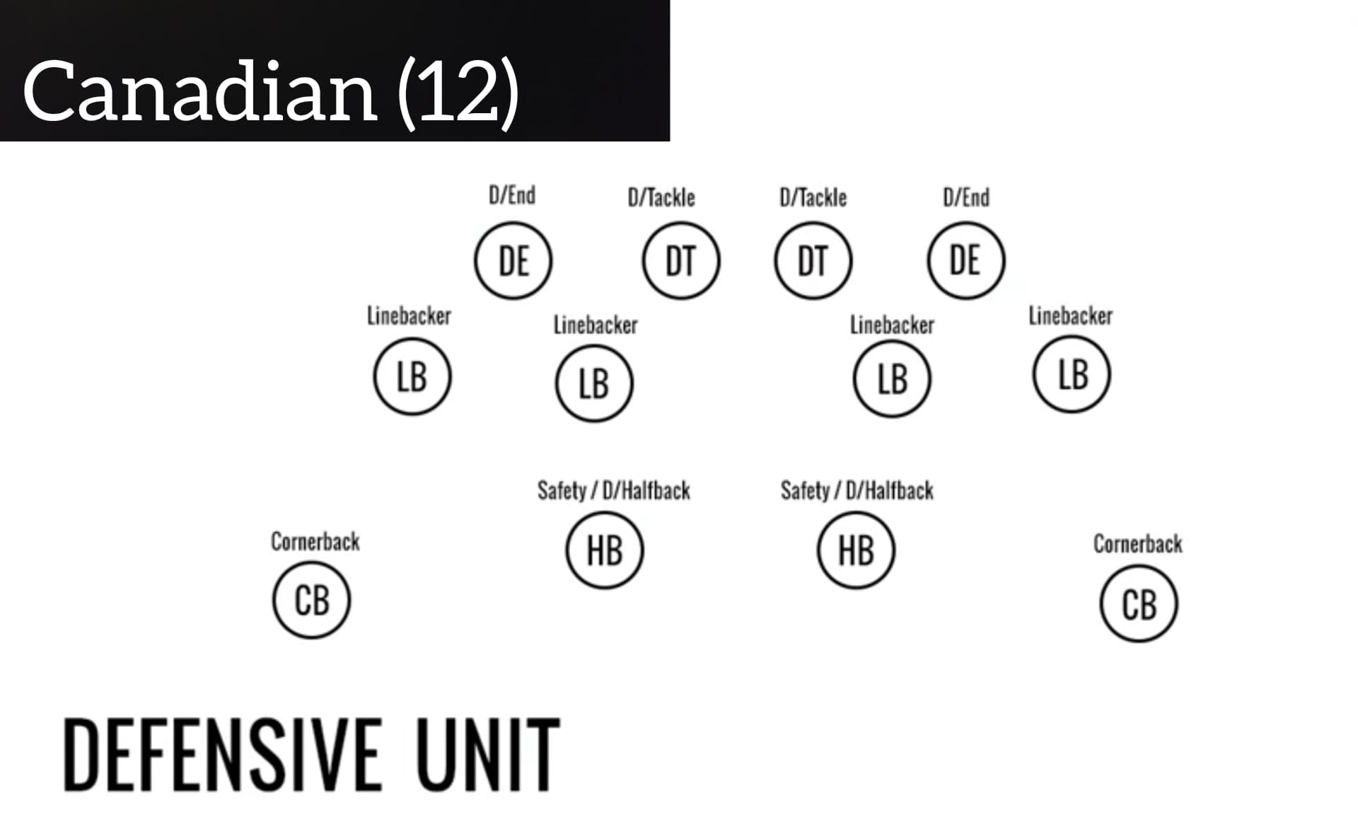 Positions correspond with official CFL rules.